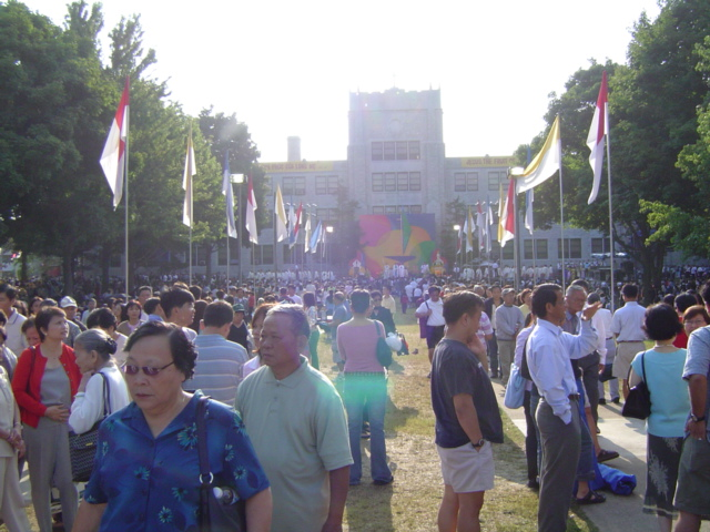 People begin leaving the closing Mass at the 28th Marian Days celebration in Carthage, Missouri, United States.